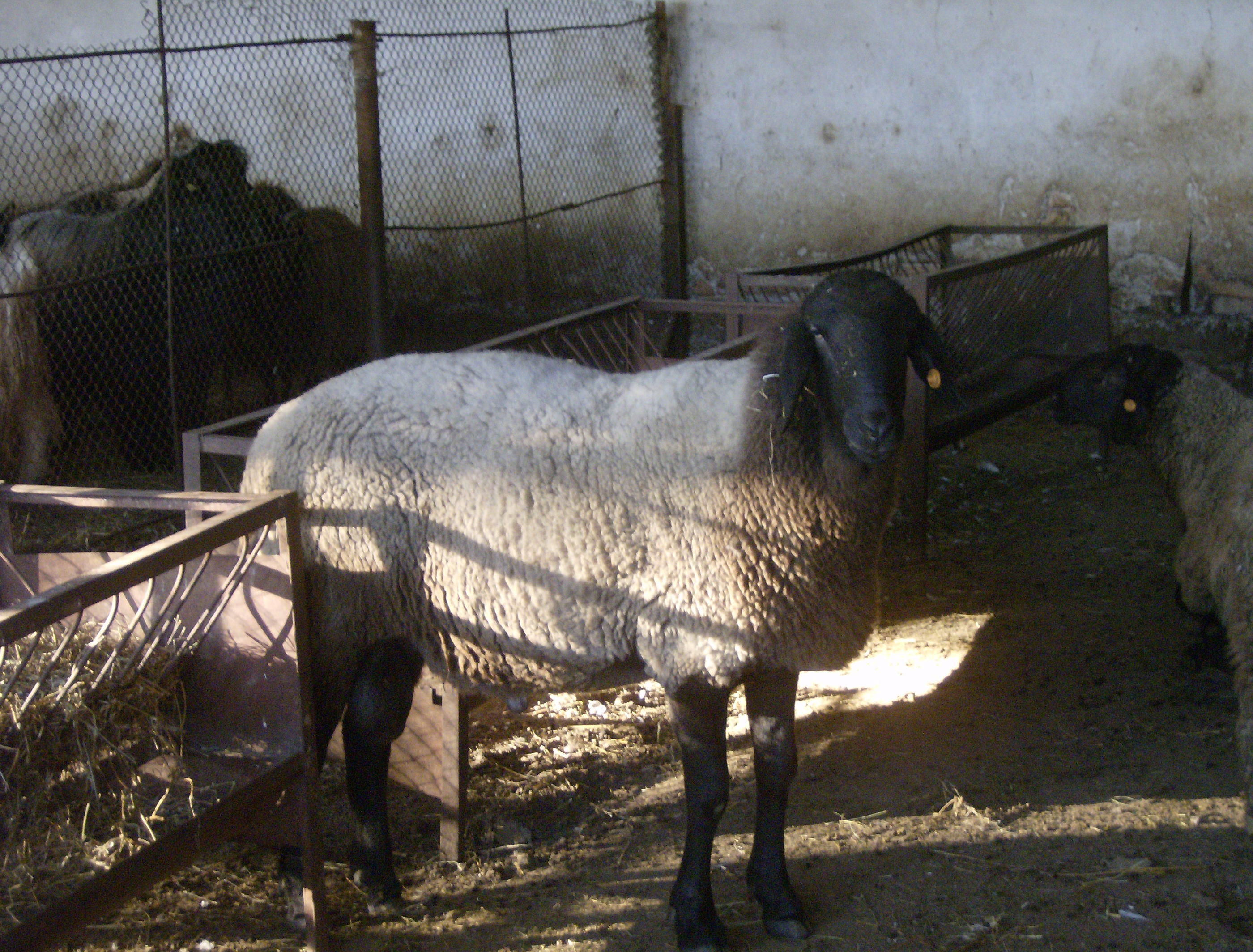 Blackhead Pleven Sheep